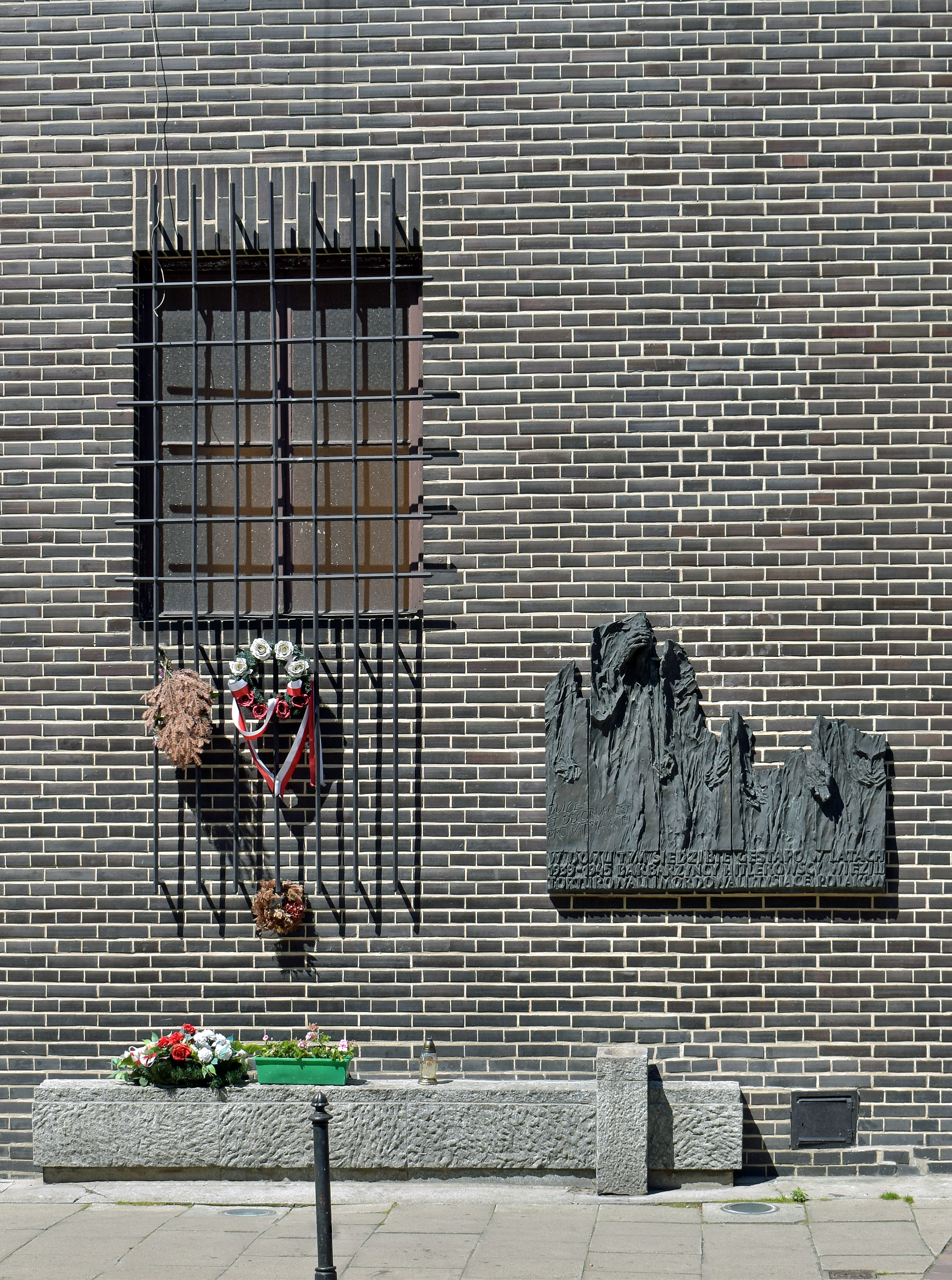 Śląski House, Memorial of the Polish Offers of Gestapo 1939-1945, 2-4 Pomorska street, Kraków, Poland